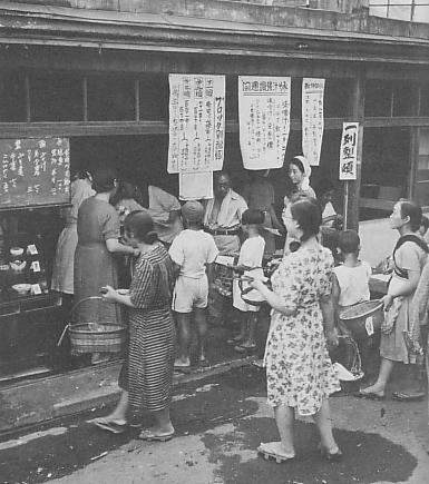 Civilian rationing by tonarigumi